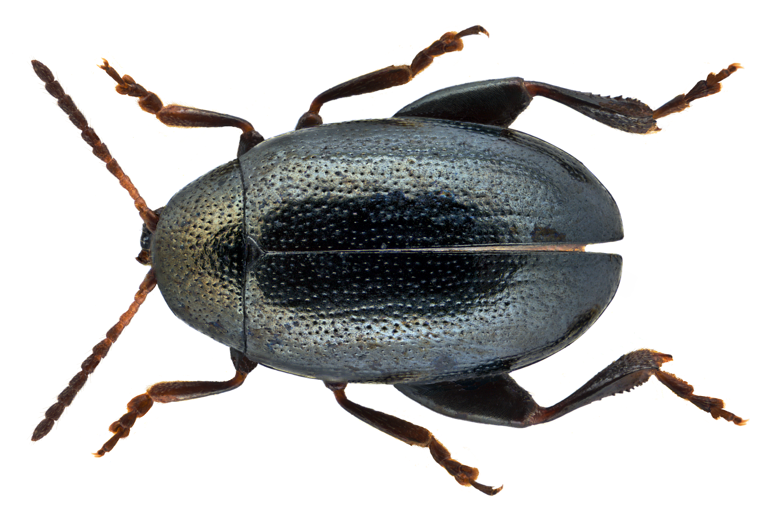 Family: Chrysomelidae Size: 2,4 mm (2,4 to 2,7 mm) Distribution: South Europe, Central Europe Location: Montenegro, Bar leg. U.Schmidt, VI.1982; det. Fritzlar, 2002 Photo: U.Schmidt, 2014